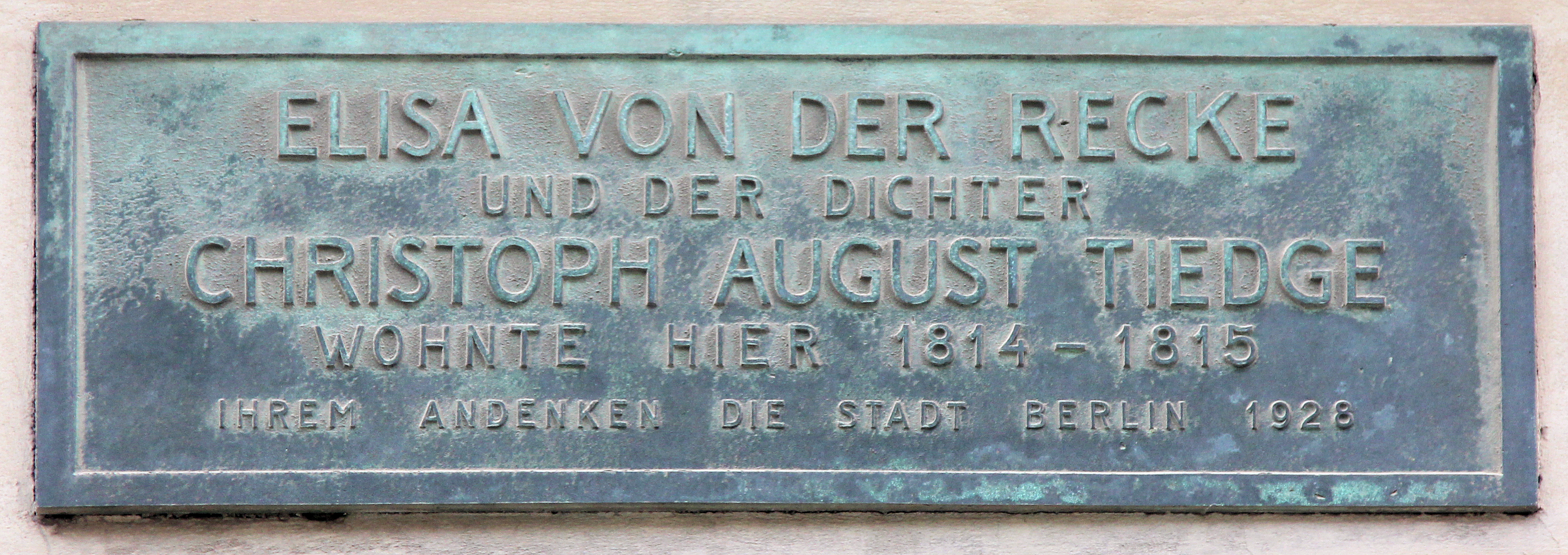 Memorial plaque, Elisa von der Recke, Christoph August Tiedge, Brüderstraße 13, Berlin-Mitte, Germany Koordinate:52°30′51″N 13°24′10″E / 52.51417°N 13.40278°E